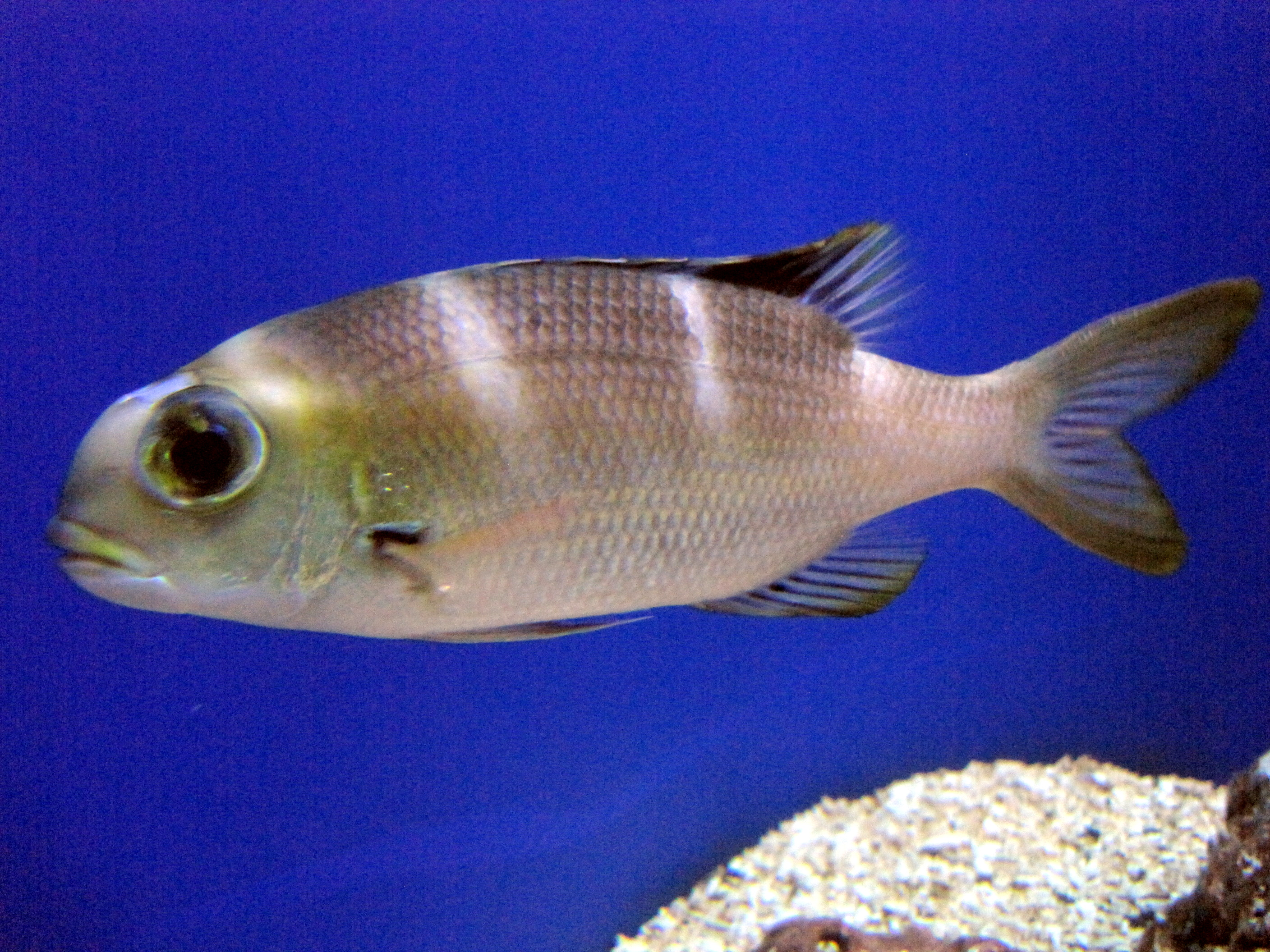 Monotaxis grandoculis, also known as bigeye emperor, humpnose big-eye bream, photographed at Waikiki Aquarium, Honolulu, Hawaii